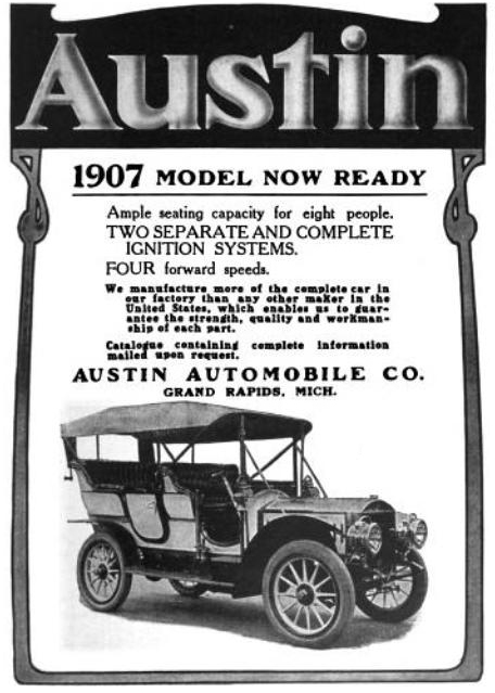 Austin Automobile Company of Grand Rapids, Michigan - 1907 model